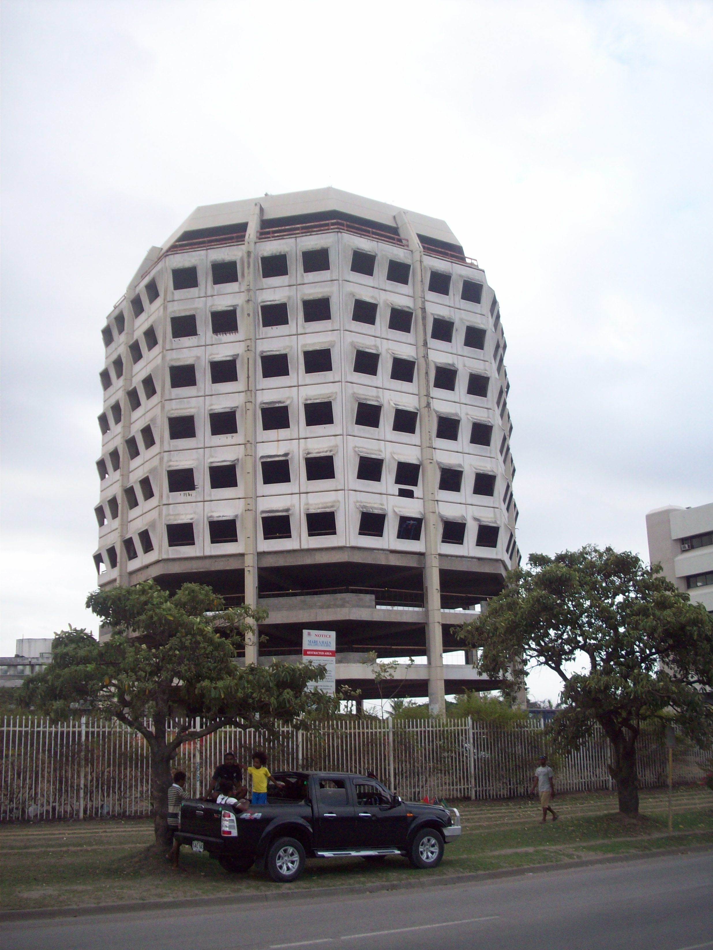 Pineapple Building under restoration in 2013